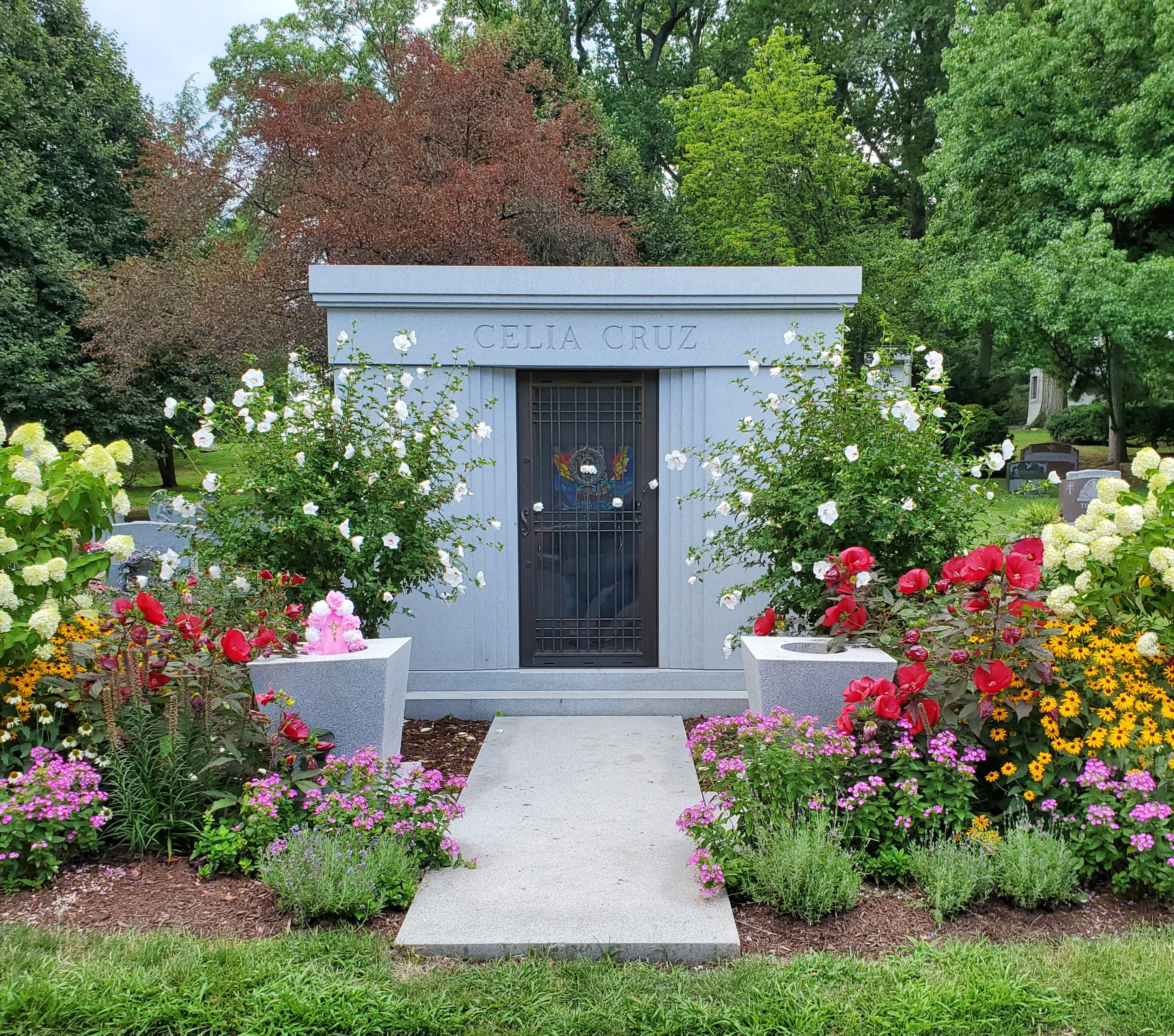 This is the headstone in Woodlawn Cemetery under which Celia Cruz